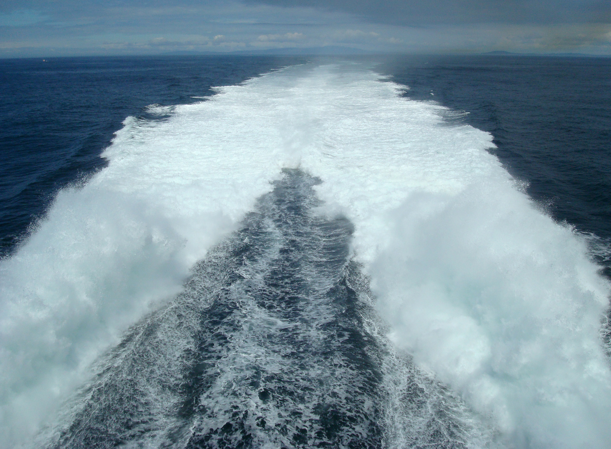 Large engine spray from the CAT ferry, heading to Yarmouth, NS in Bar Harbor, ME